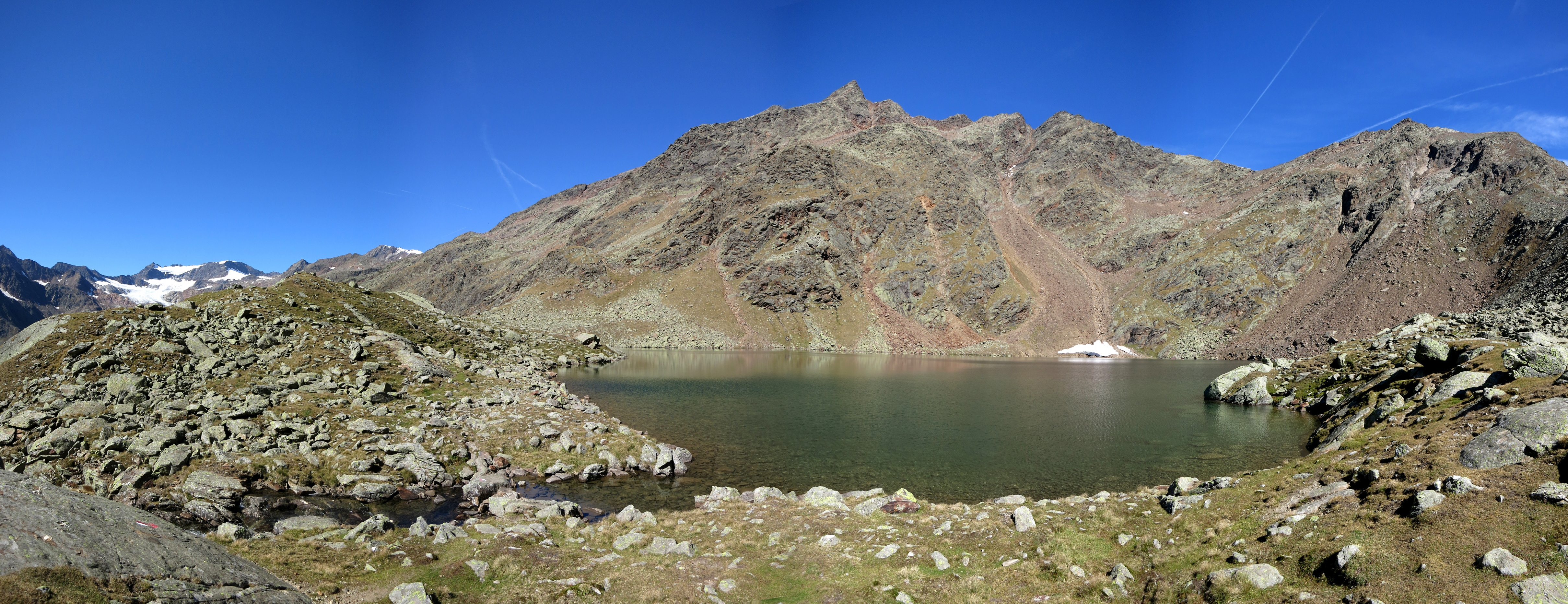 Pfurnsee, lake in South Tyrol